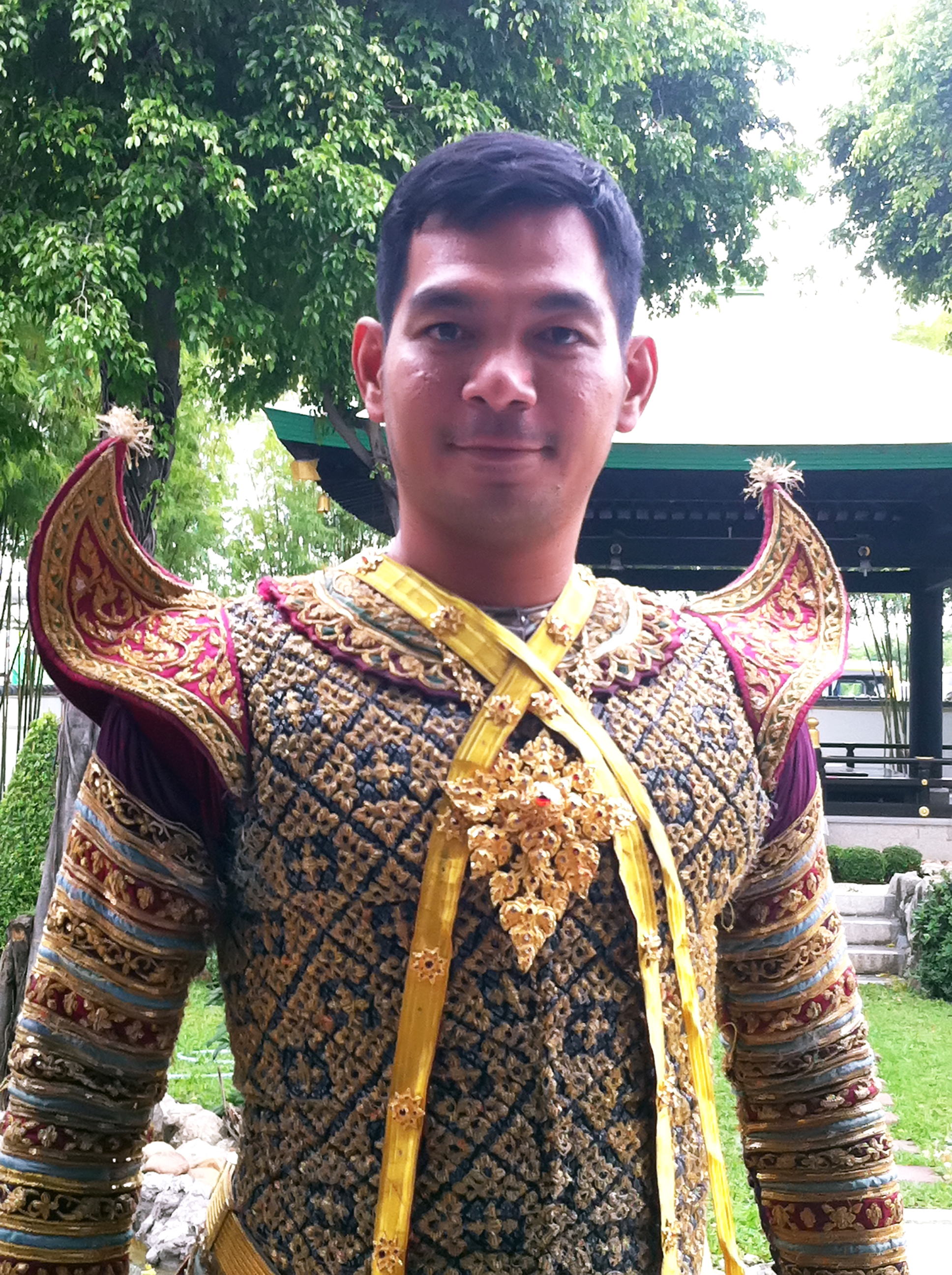 Actor Maiyarap form The Masked Play "The Battle of Maiyarap" 15th-31st July 2011, Main Hall, Thailand Cultural Center